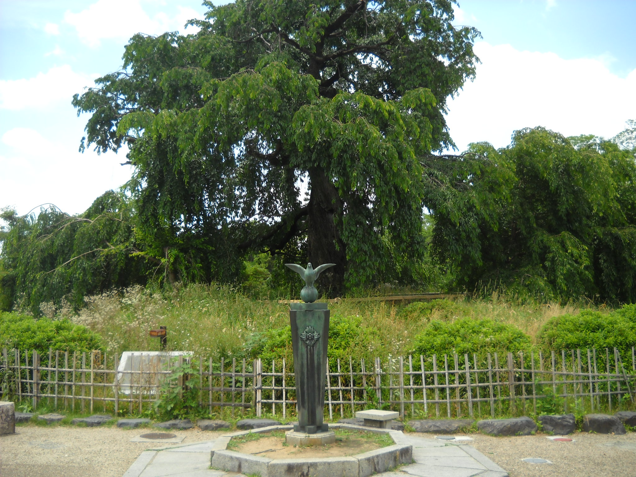 Maruyama Park, Kyoto, June 5th 2019.